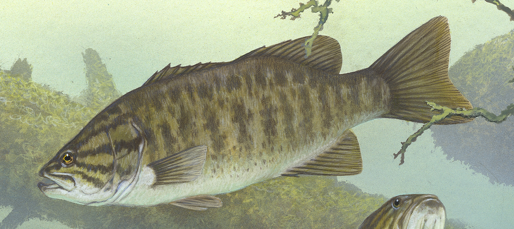 Crop of file in filename